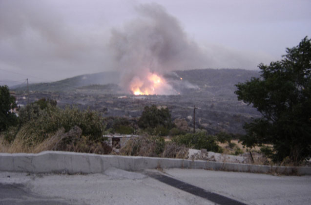 July 2008- Rhodes big fire in process. Total of 120.000 acres burnt